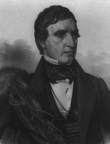 Engraving of then–U.S. Senator William R. King (1786–1853), who died several weeks after becoming vice president of the United States.